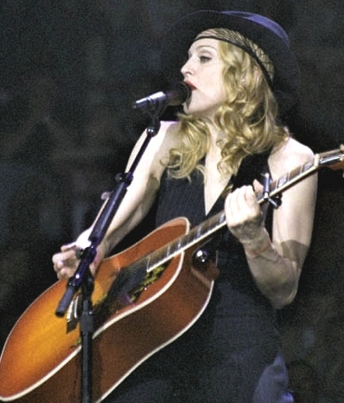 concert